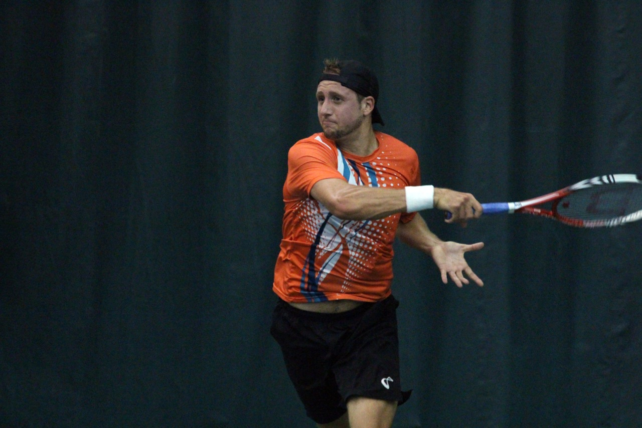 This picture is from Tennys Sandgren's first round singles match of the Challenger of Dallas.